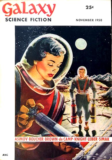 Cover of Galaxy, November 1950